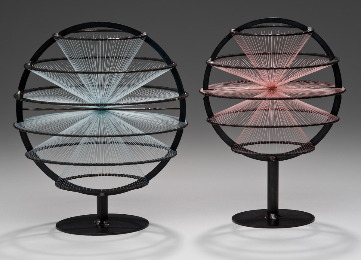 "Spin Family (Bosons and Fermions)", 2009 steel and silk 7" x 6" x 6".